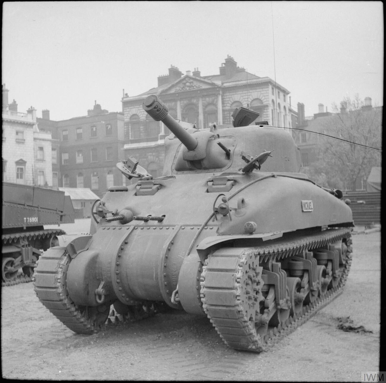 The British Army in the United Kingdom 1939-45 The first Sherman tank delivered to Britain, on display at Horseguards Parade in London, 8 May 1942.